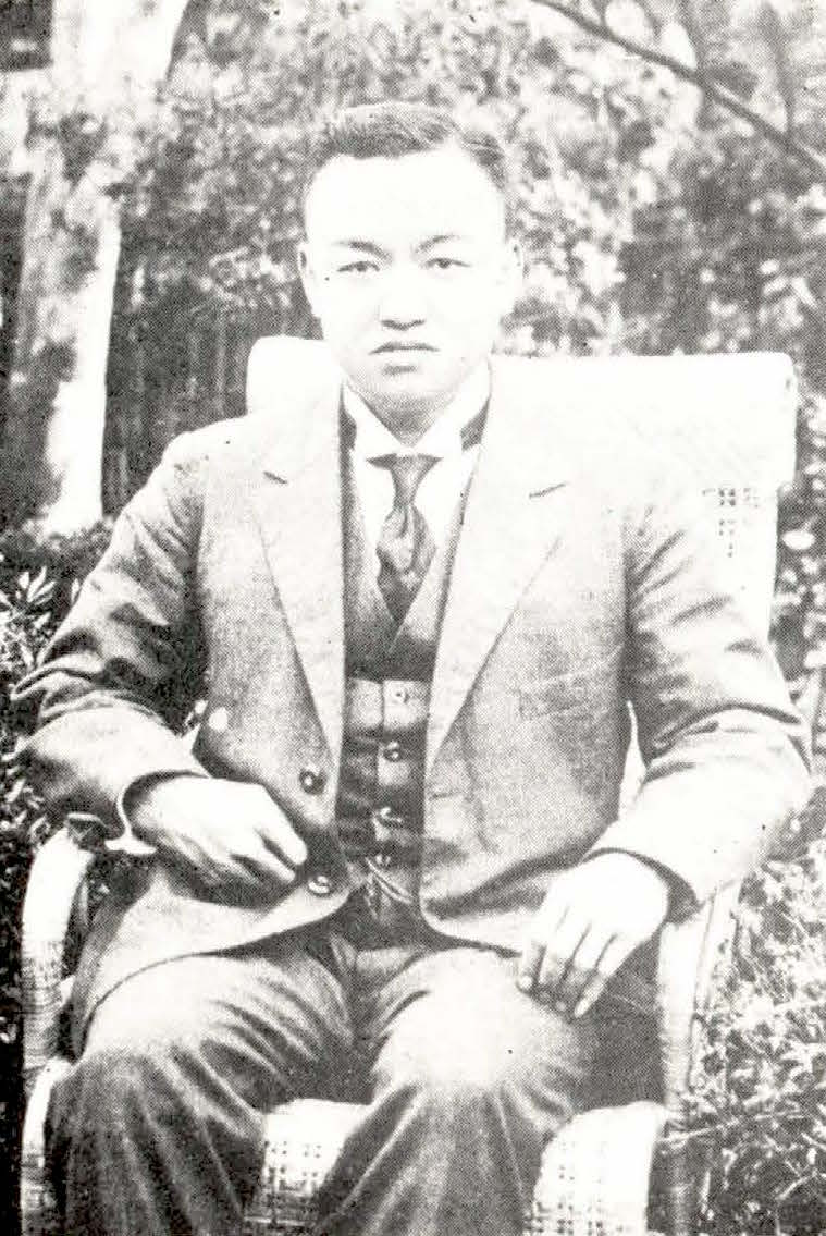 顏國年